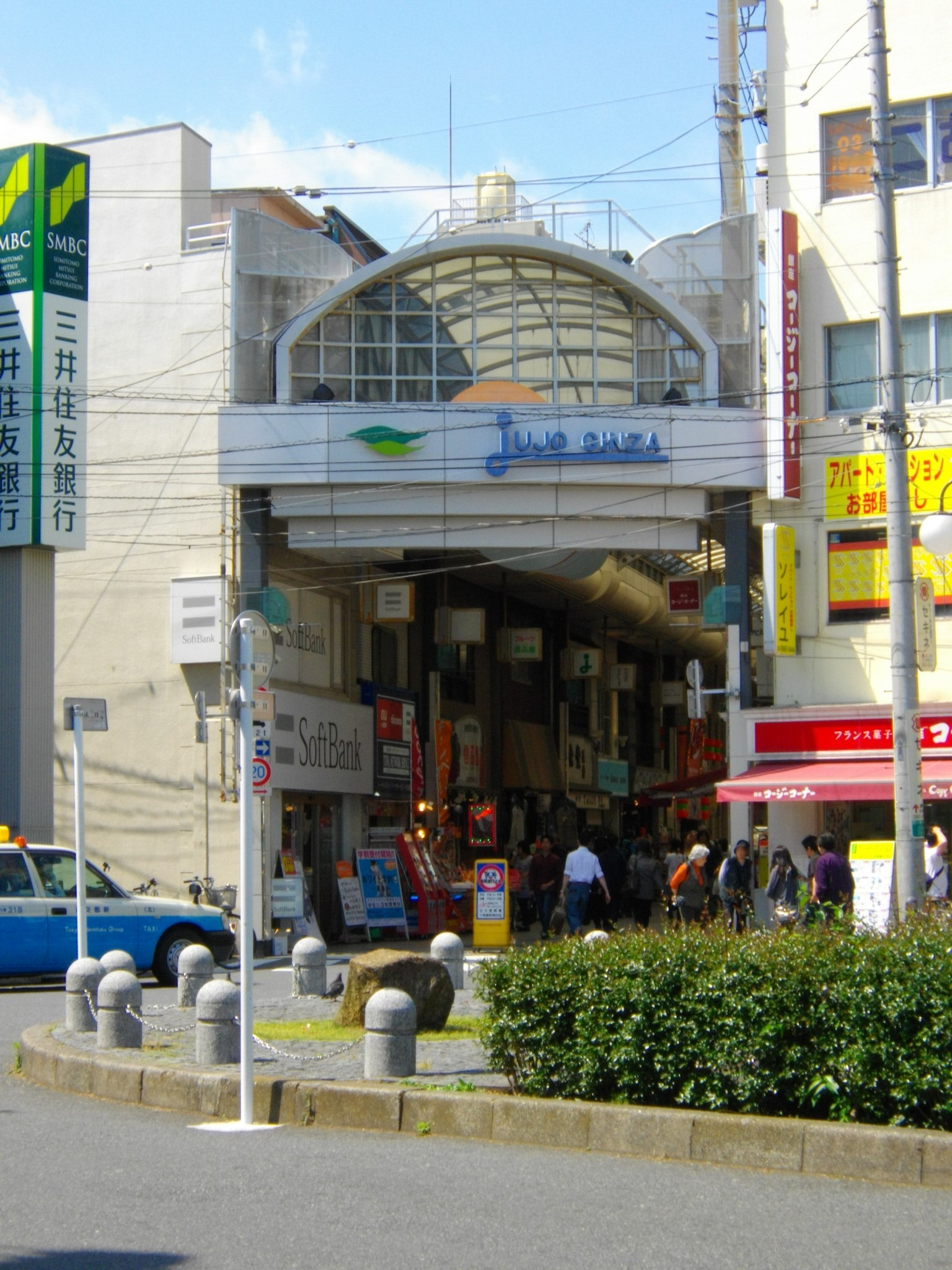 Jujo Ginza Shopping District